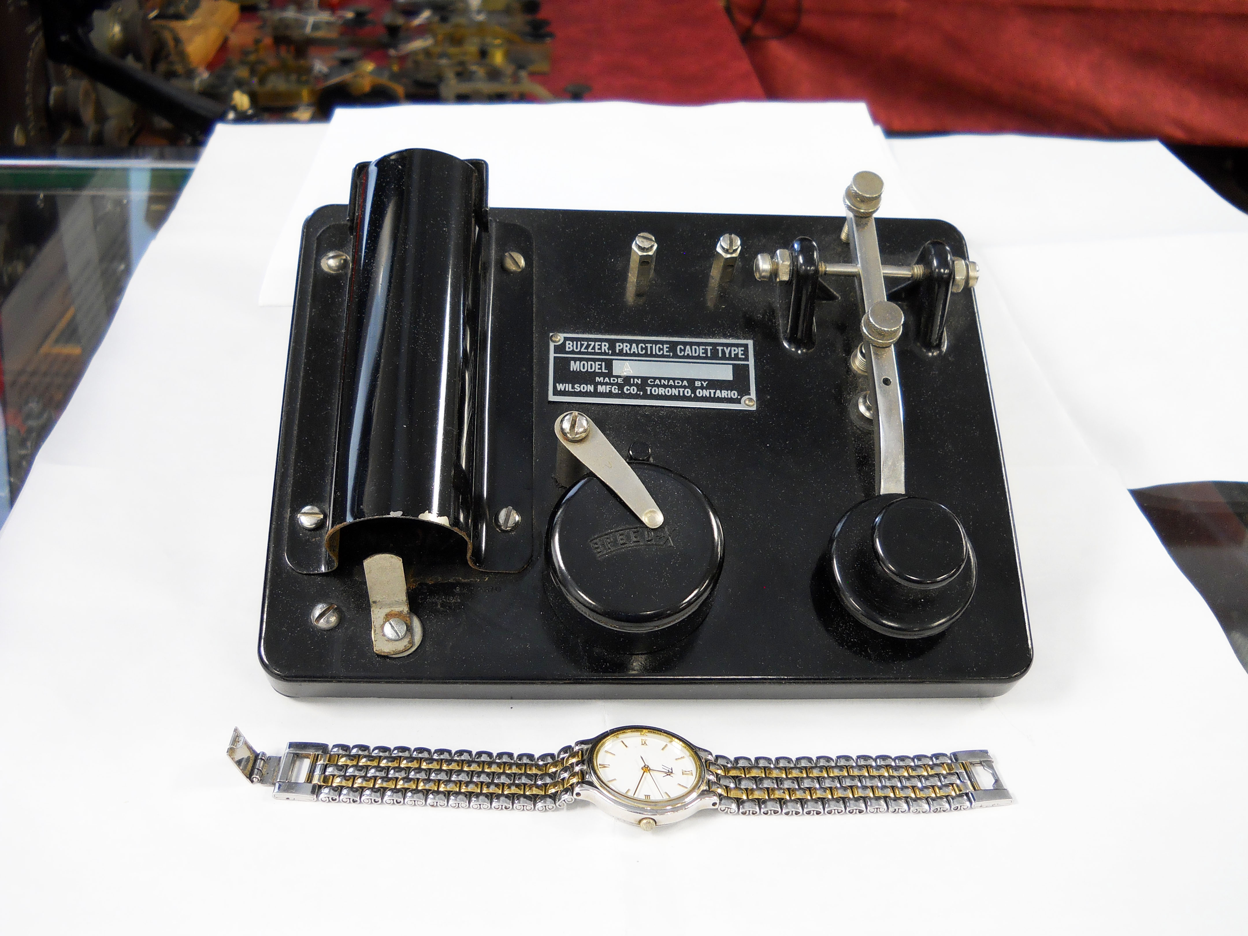 A Morse Code practice buzzer from the 1940s. This type of buzzer would have been used by students at a Royal Canadian Air Force Wireless School in World War II. This one was manufactured by the Wilson Company of Toronto, Ontario, Canada. An instruction sheet is glued to the underside of the buzzer and stamped "Approved For Gov't Use". The wristwatch in the photo is there simply to provide a clue to the size of the device. Buzzer courtesy of the Hammond Museum of Radio, Guelph, Ontario, Canada.